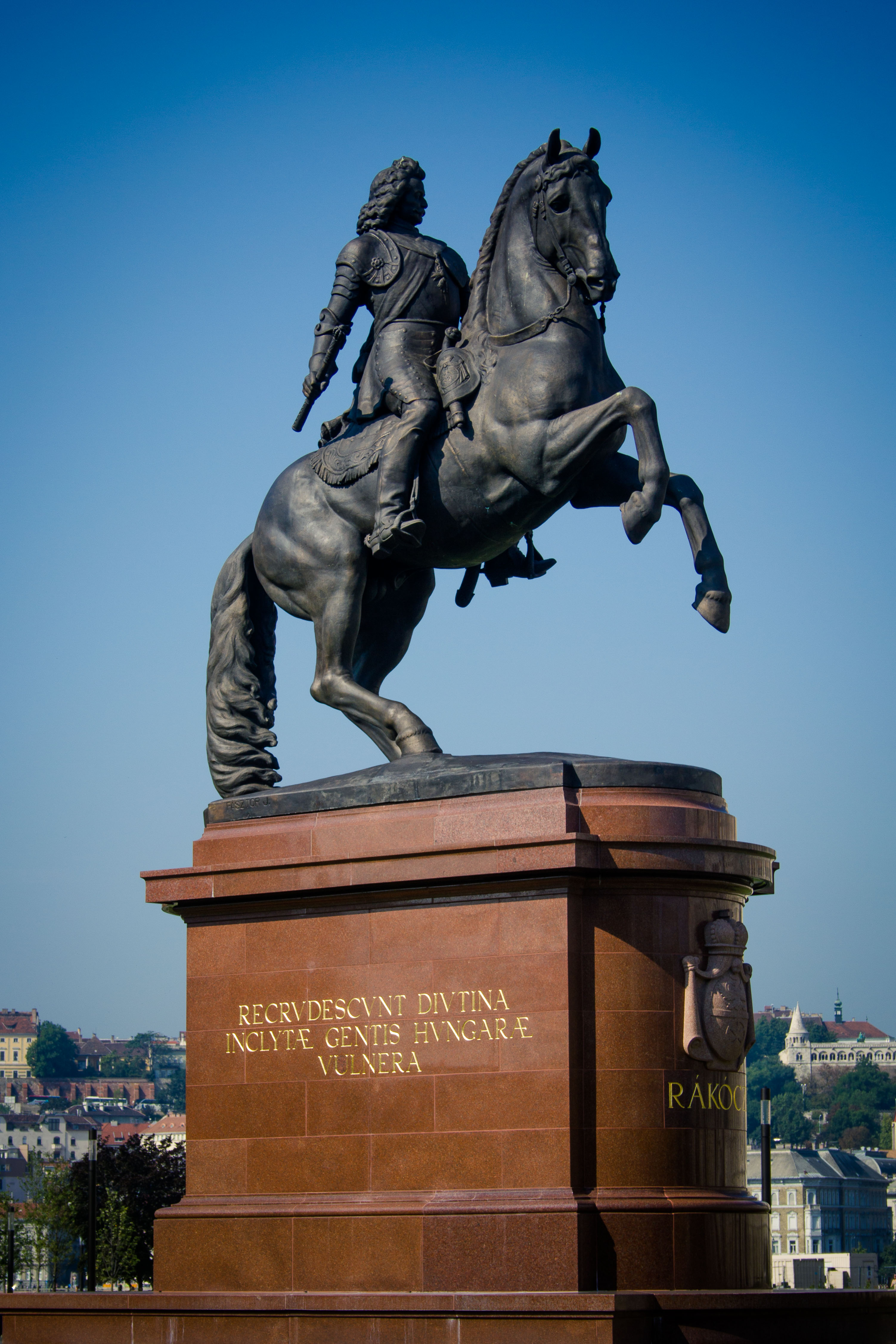 Statue of Francis II Rákóczi situated outside Hungarian House of Parliament